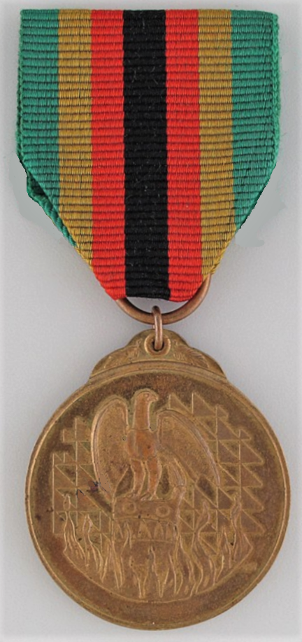 Independence medal awarded by the new Republic of Zimbabwe, 1980